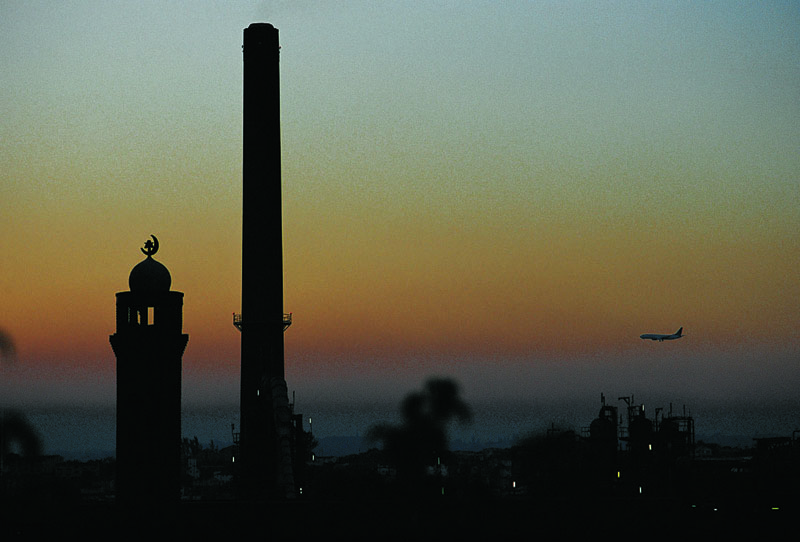 Part of a series of images on Durban by photographer Paul Weinberg.